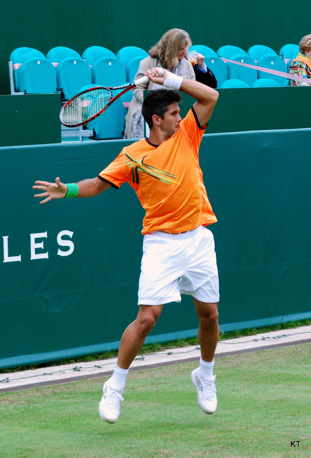 The Boodles, Stoke Park, 2011.